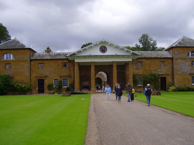 Althorp stable block Where the Diana, Princess of Wales, exhibition is housed.